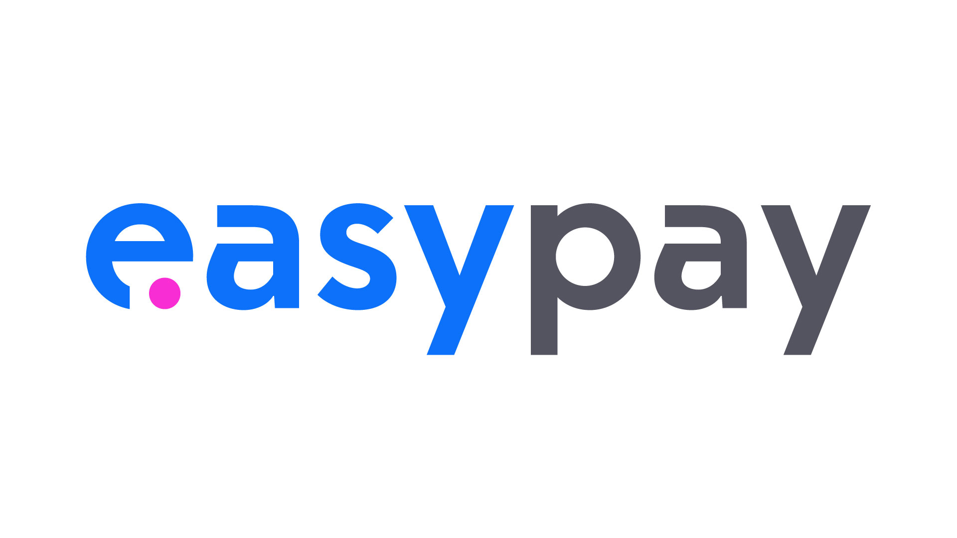 Easypay Instituição de Pagamentos, Portugal, Fintech